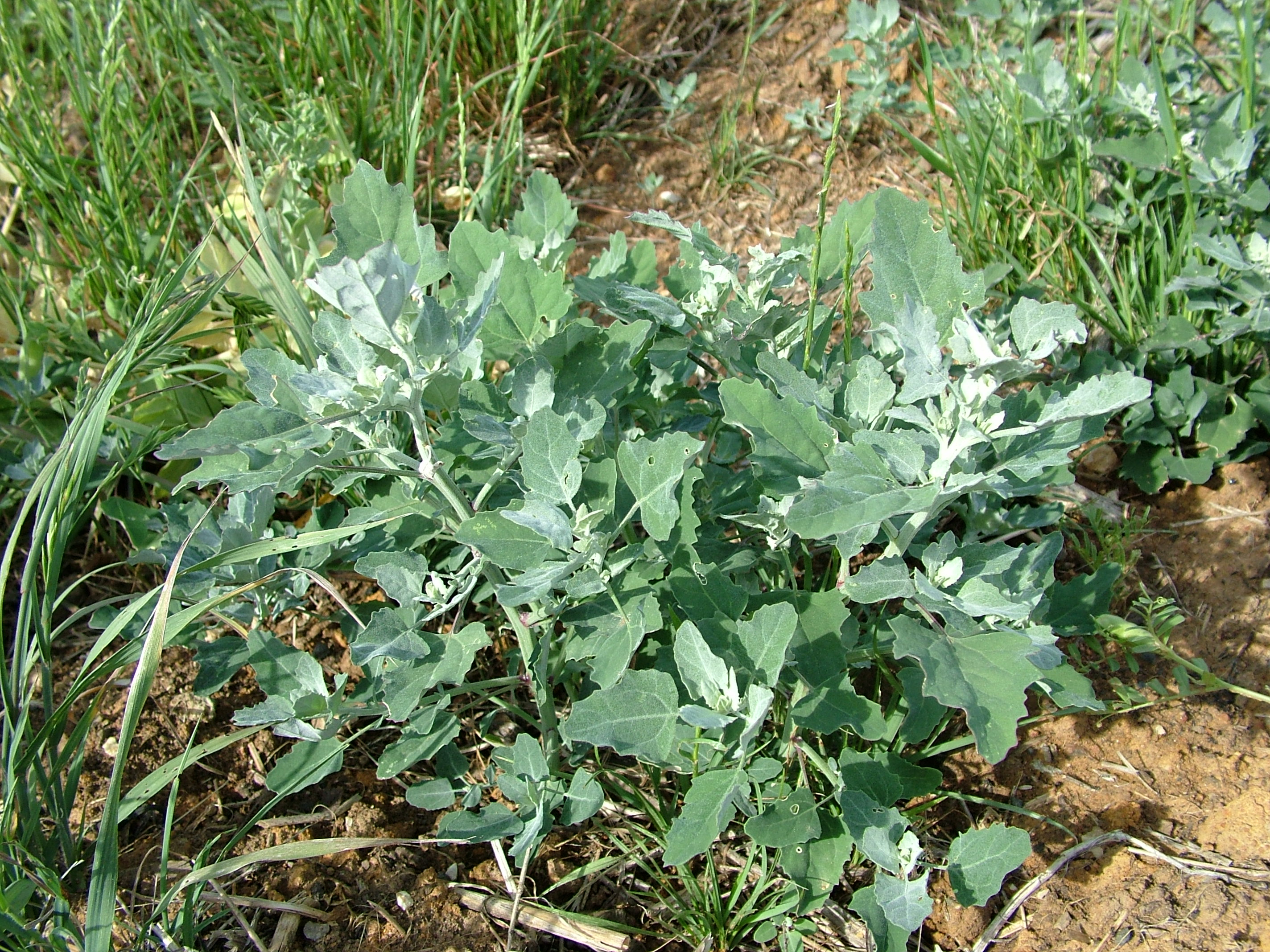 Introduced, warm-seaon, annual, erect herb to 2.5 m tall; stems are often striate and often tinged with purple or red. Lower leaves are alternate, rhombic to ovate, grading into elliptic to linear up the stem, lamina to 10 cm long; silvery green, especially on the lower surface from a mealy bloom. Flowerheads are paniculate, the larger ones usually leafy. Flowers are bisexual or female. Perianth segments 5, fused in lower half. Probably a native of Europe, but native range now obscure. It is a weed of many crops in many countries, particularly in cool regions. It grows on many soil types but grows to its greatest size on fertile, heavy soils. Leaves have been used as a green vegetable and dried seeds ground to make flour. Plants are palatable to stock when young. Seeds may survive for 30-40 years in the soil.